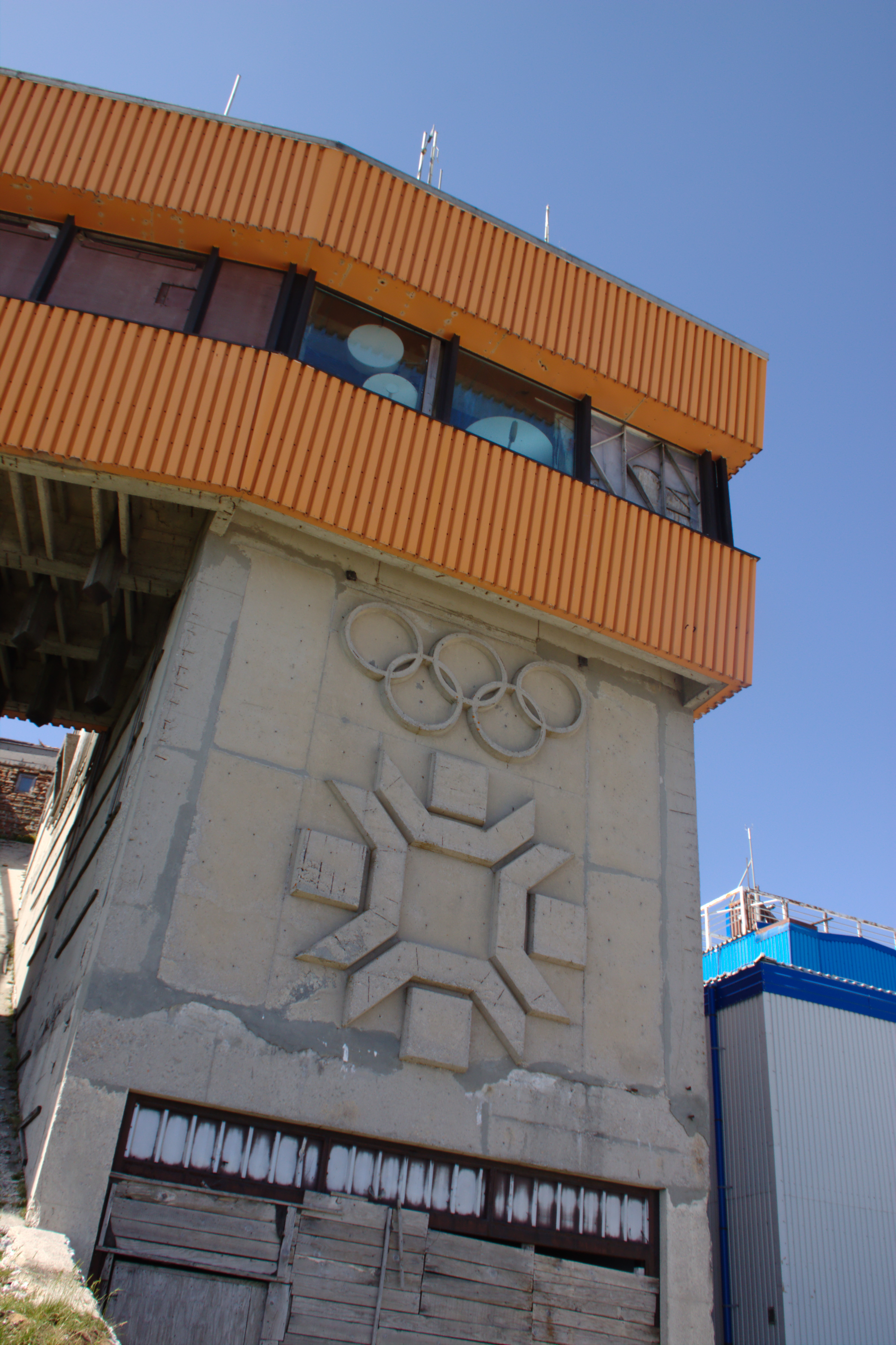 Remnants of the sports center at Bjelašnica hill, Bosnia and Herzegovina